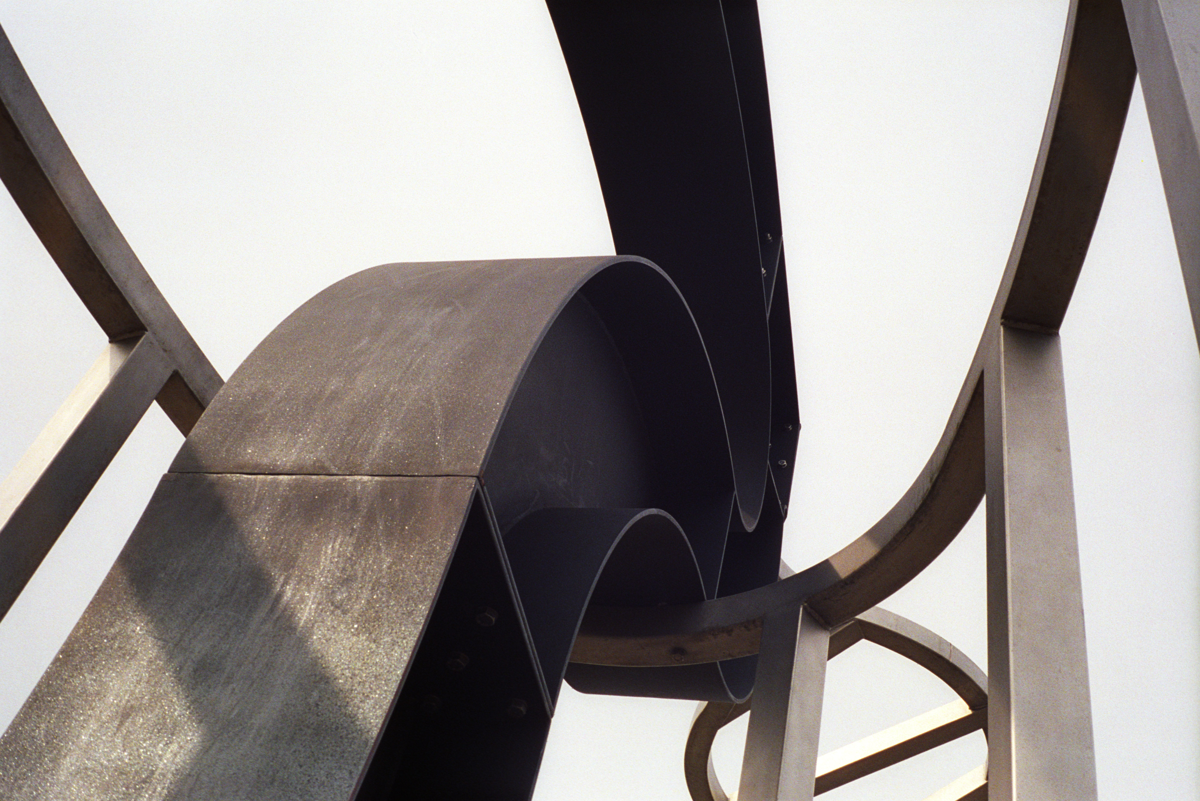 Let's Not Be Stupid by Richard Deacon at the University of Warwick